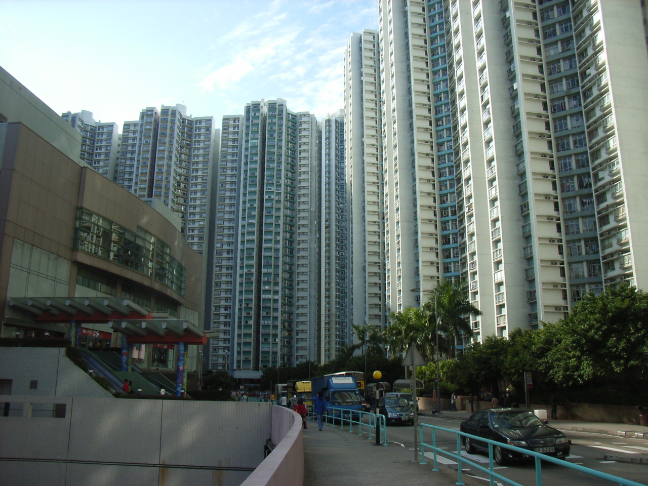 海怡半島 (South Horizons)，Hong Kong Photographer:User:Apade1872